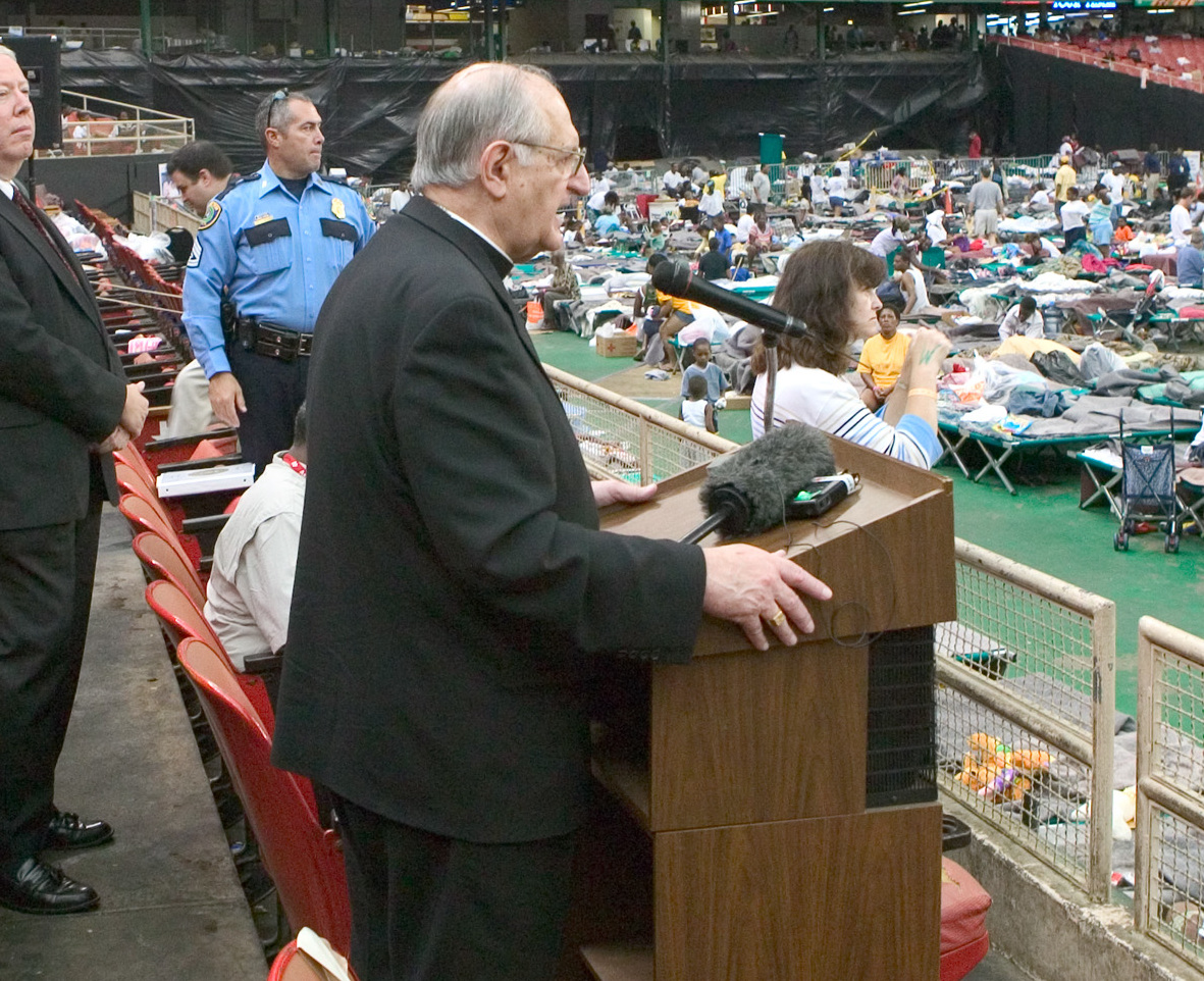 Houston,TX.,9/4/2005--Archbishop Joseph A. Fiorenza (at podium), Rev. Bill Lawson (left to right), Sheik Mustafa Mahmoud and Rabi David Rosen deliver Sunday services to Hurricane Katrina evacuees housed in the Red Cross shelter in the Houston Astrodome. FEMA photo/Andrea Booher